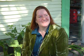 American science fiction writer Elizabeth Bear.